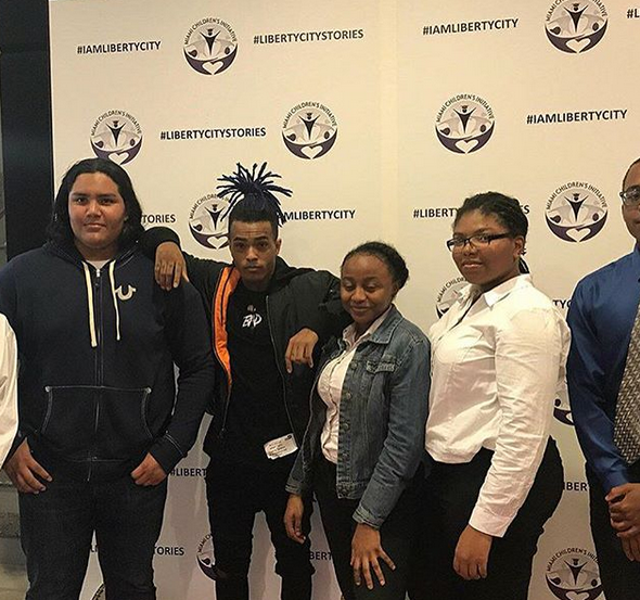 XXXTentacion outside Charles R. Drew High School for Miami Children's Initiative